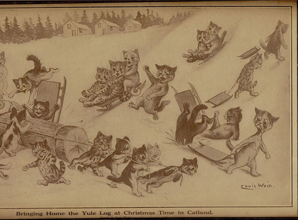 Cats bringing in a Yule log; one of Louis Wain's images of Catland. From a postcard.